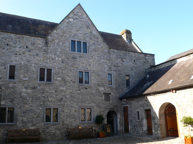 Third house, Rothe House This largehouse, built in 1610, housed John Rothe's kitchen, brewery and some living accommodation.